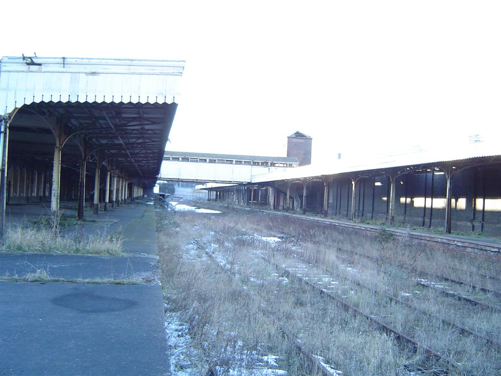 Wolverhampton Low Level interior immediately prior to redevelopment, January 2006